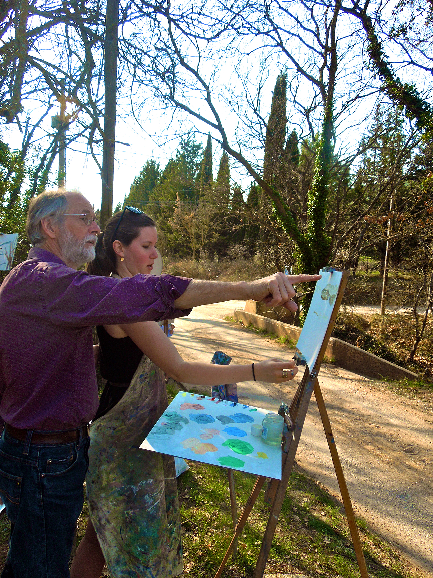 Professor John Gasparach, Assistant Dean of IAU’s Marchutz School of Fine Arts, assists a student with her landscape painting.